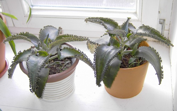 Bryophyllum daigremontianum, ca. 2 Monate alt